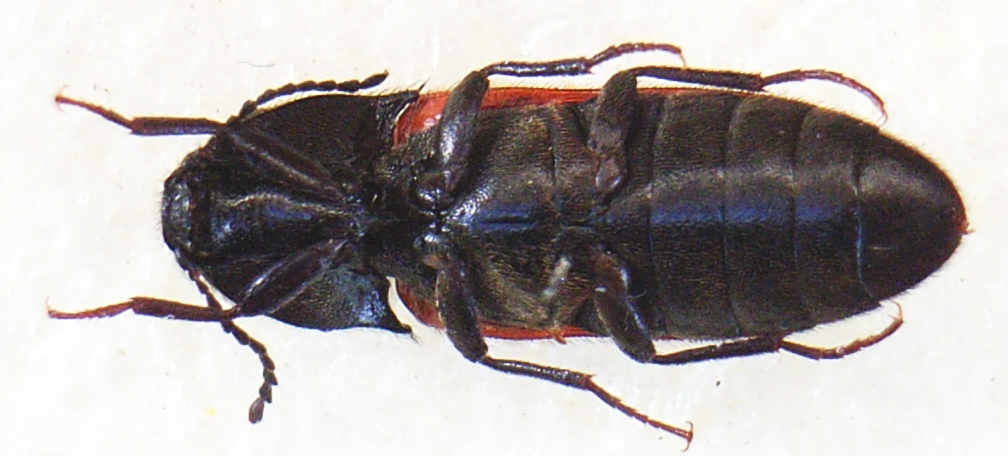 Underside of Ampedus sanguinolentus